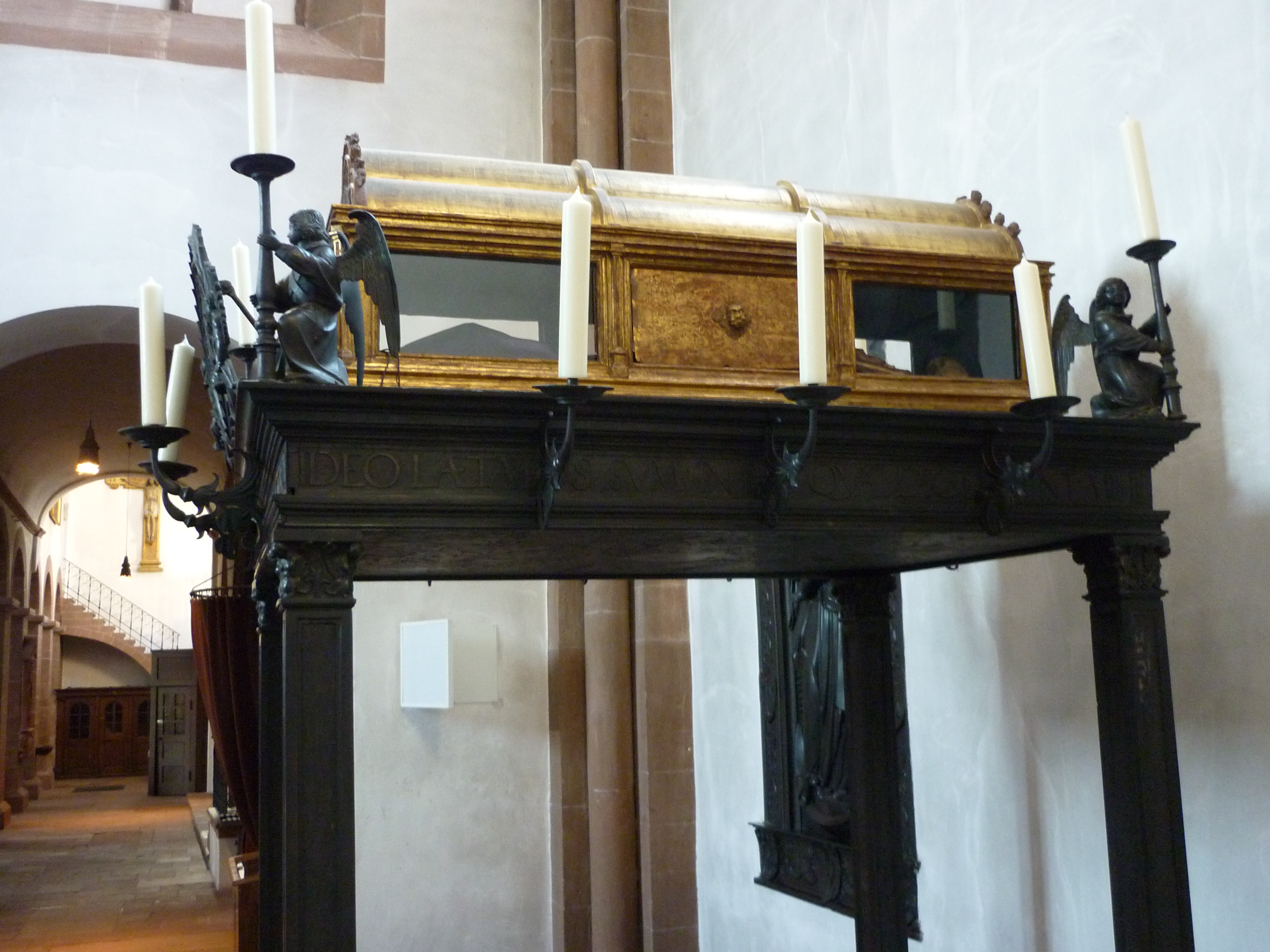 Coffin of Margaretha, companion of Saint Ursula, Stiftskirche, Aschaffenburg, Germany